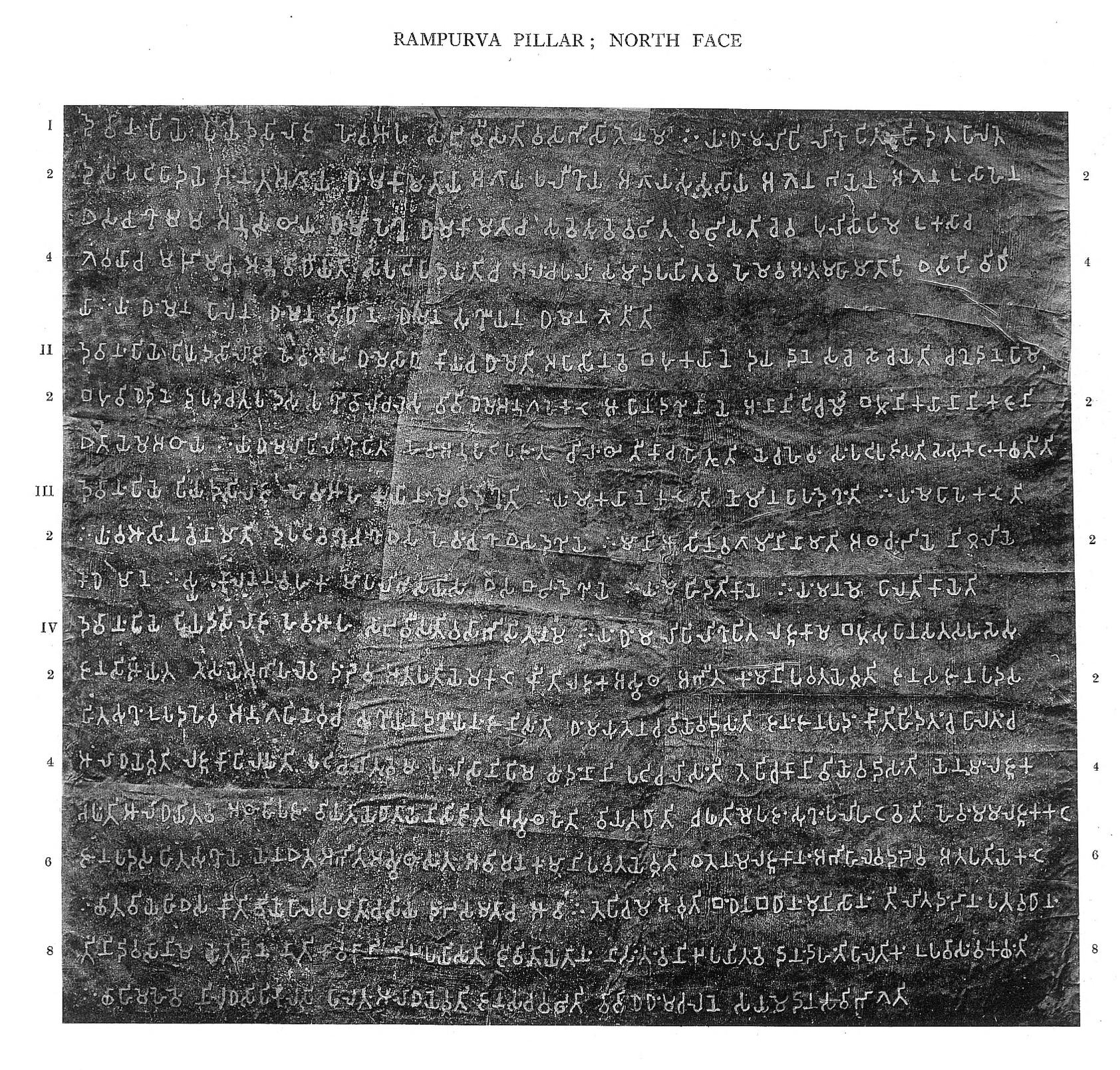 Rampurva pillar north face